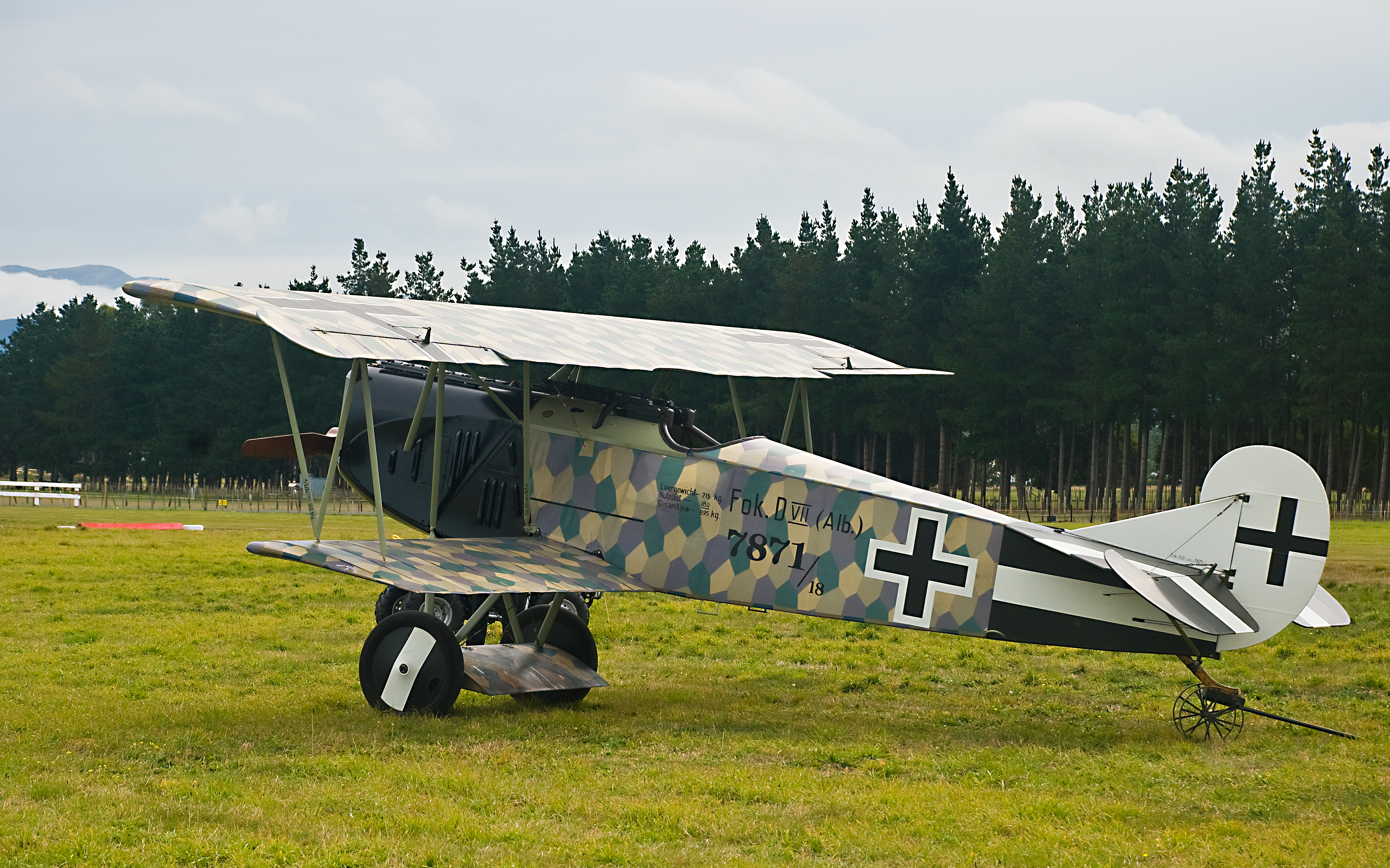 Fokker D.VII, Masterton, New Zealand, 25 April 2009